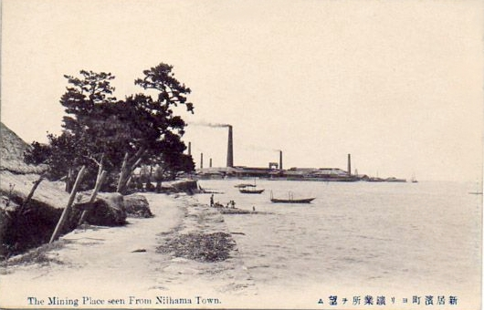 Niihama Port in Niihama, Ehime pref., Japan.